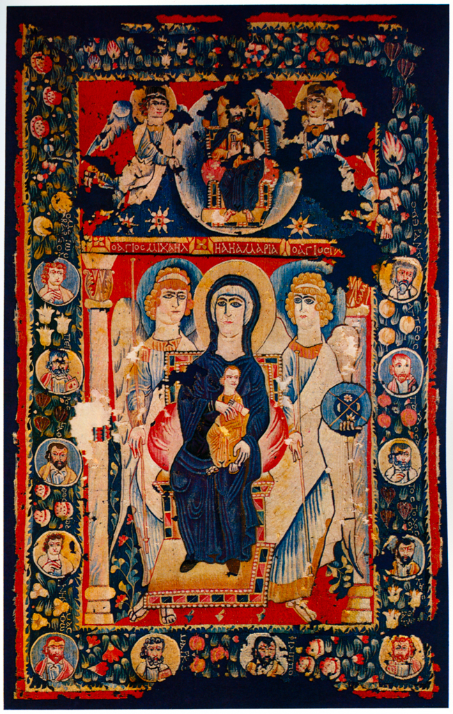 Provenance: Egypt. Hanging tapestry icon.